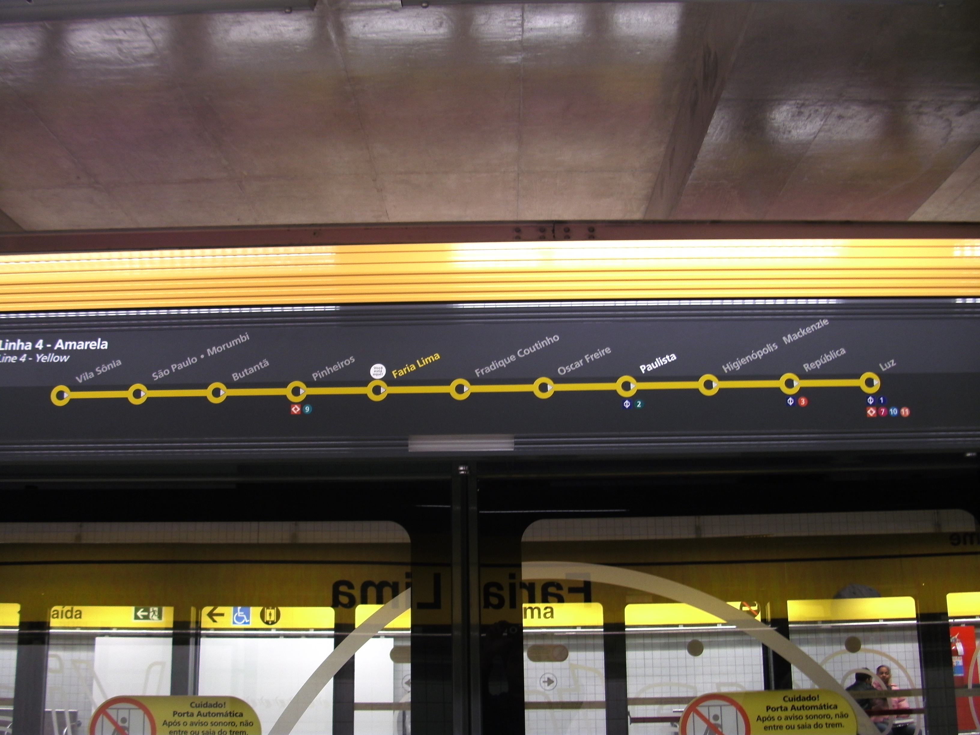 sign yelow line, São Paulo, Brazil